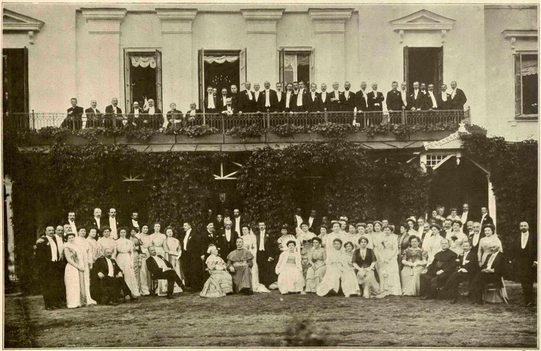 Meczyslaw Jalowiecki (1876–1962) and Julia Wankowicz's marriage in Sliapianka (near Minsk city in Russian empire), 30 June 1910 AD